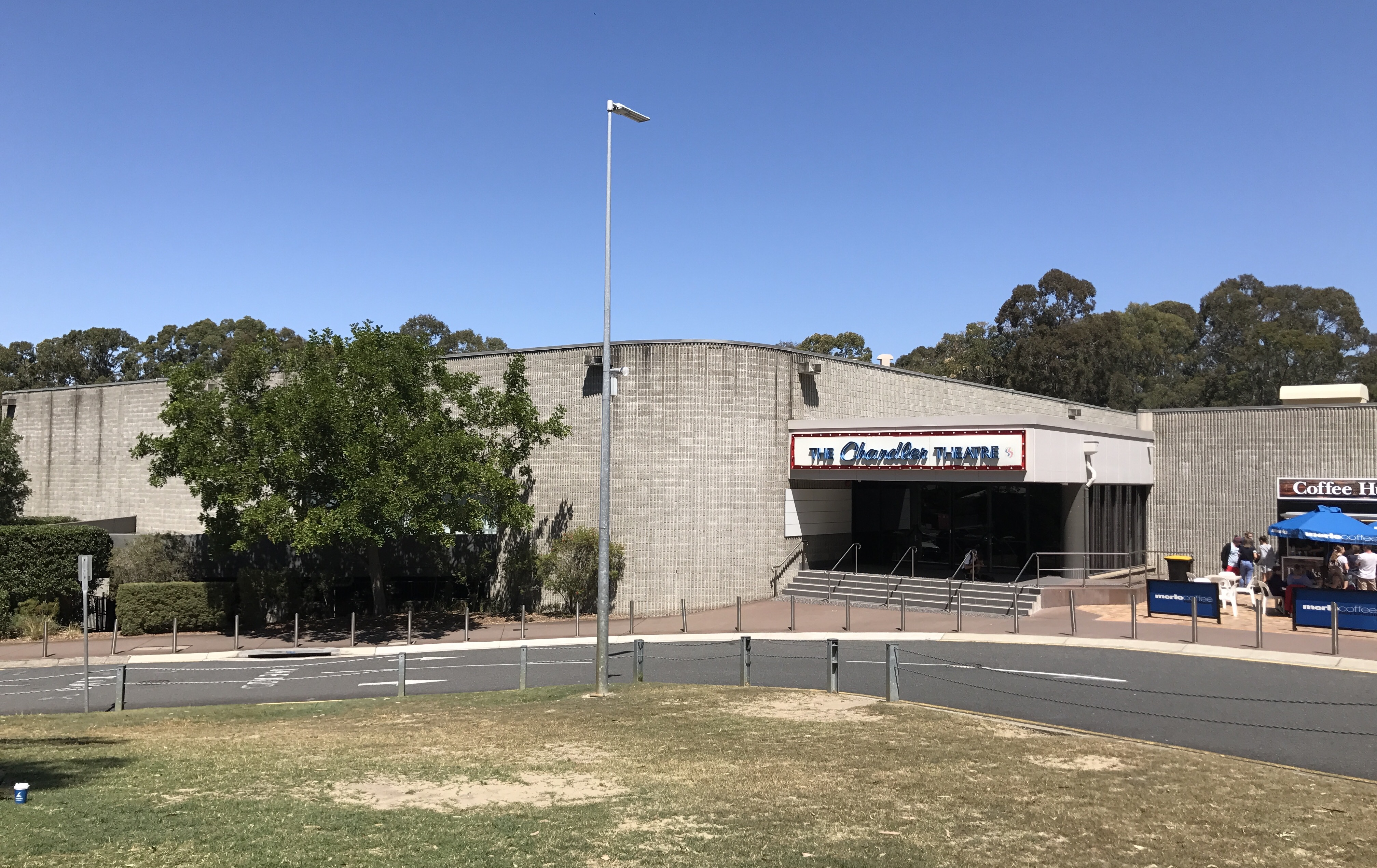 The Chandler Theatre at Sleeman Centre Brisbane